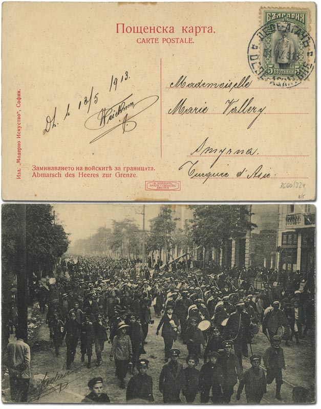 Bulgarian kingdom town Dedeagach 1915